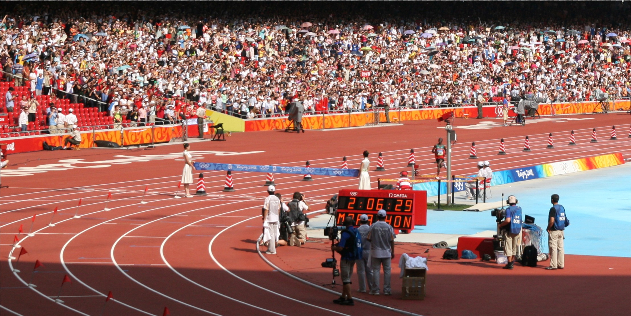 Samuel Wanjiru wins the marathon gold medal in an Olympic record time of 2:06:32 in 2008 Summer Olympics